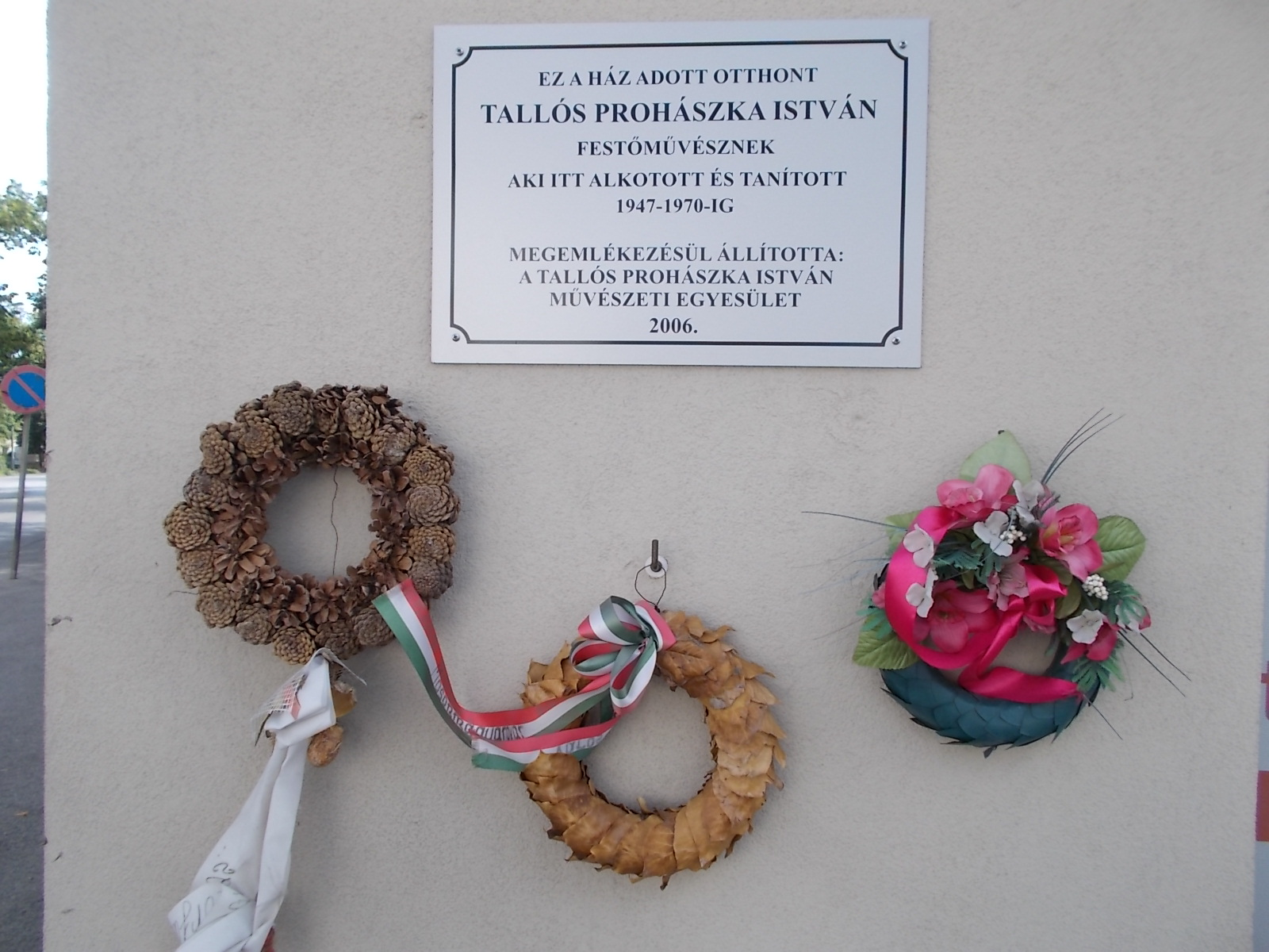 Here worked plaque of István Prohászka Tallós. Former PPhoto studo now denal clinic located here. - 5 Városkapu Square, Magyaróvár neighborhood, Mosonmagyaróvár, Győr-Moson-Sopron County, Hungary.